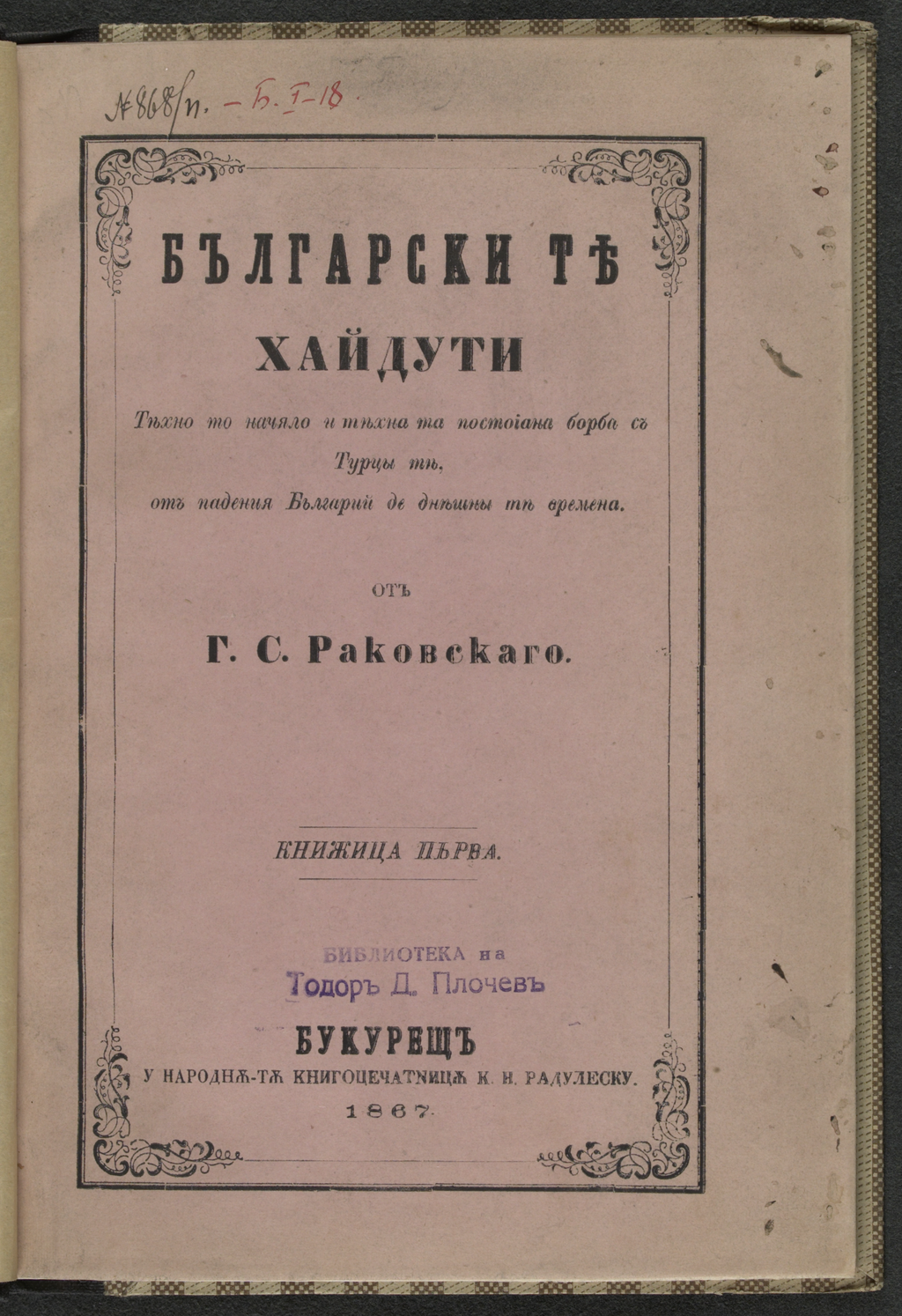 "Georgi Stoikov Rakovski (1821-67) was a famous Bulgarian revolutionary who drew inspiration from the haiduts, the traditional bandits who lived in the mountains of Bulgaria and robbed from the Ottomans. He intended to write a larger history of the haiduts in Bulgaria, but was able to send his publisher only the 39 pages that comprise Book I before he died of tuberculosis at the age of 46."